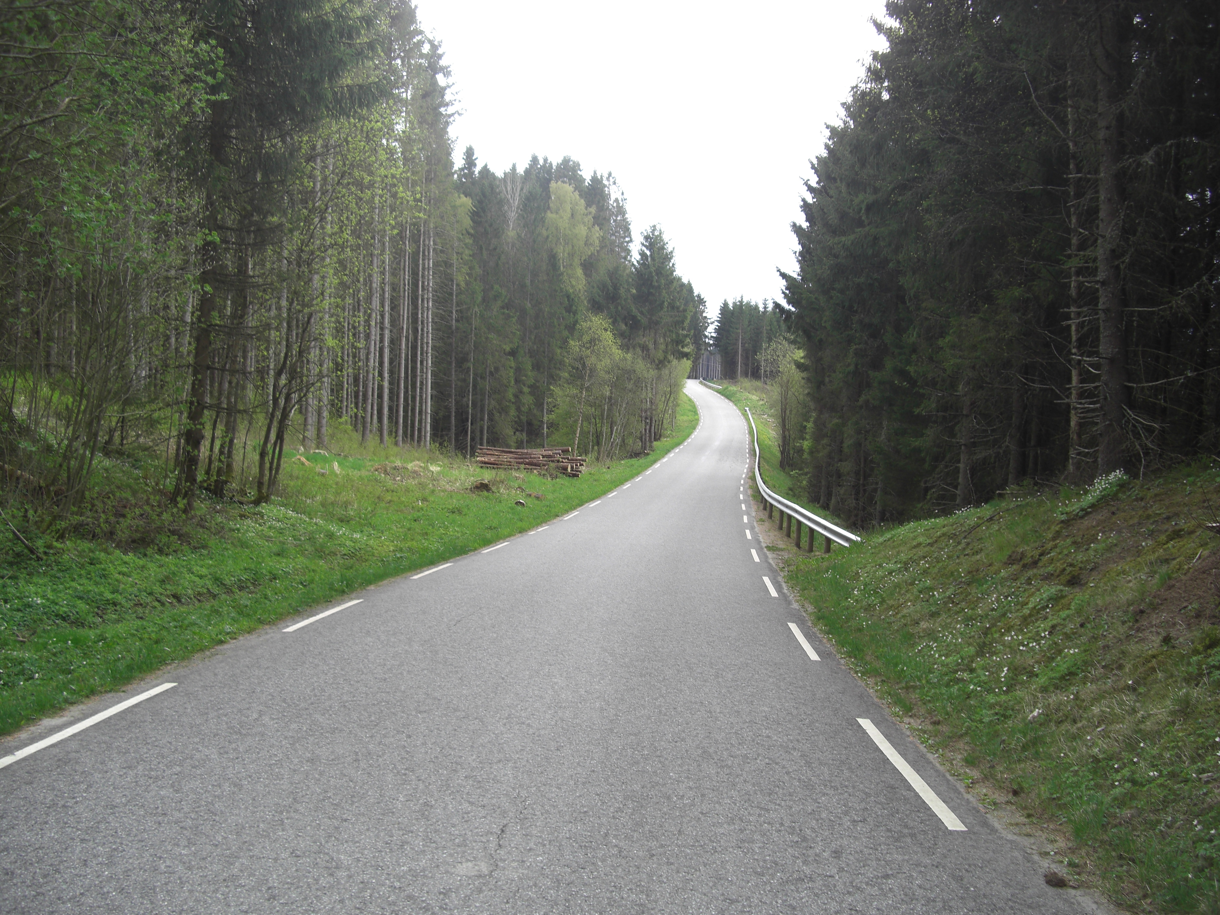 Tenorveien, Eidsberg